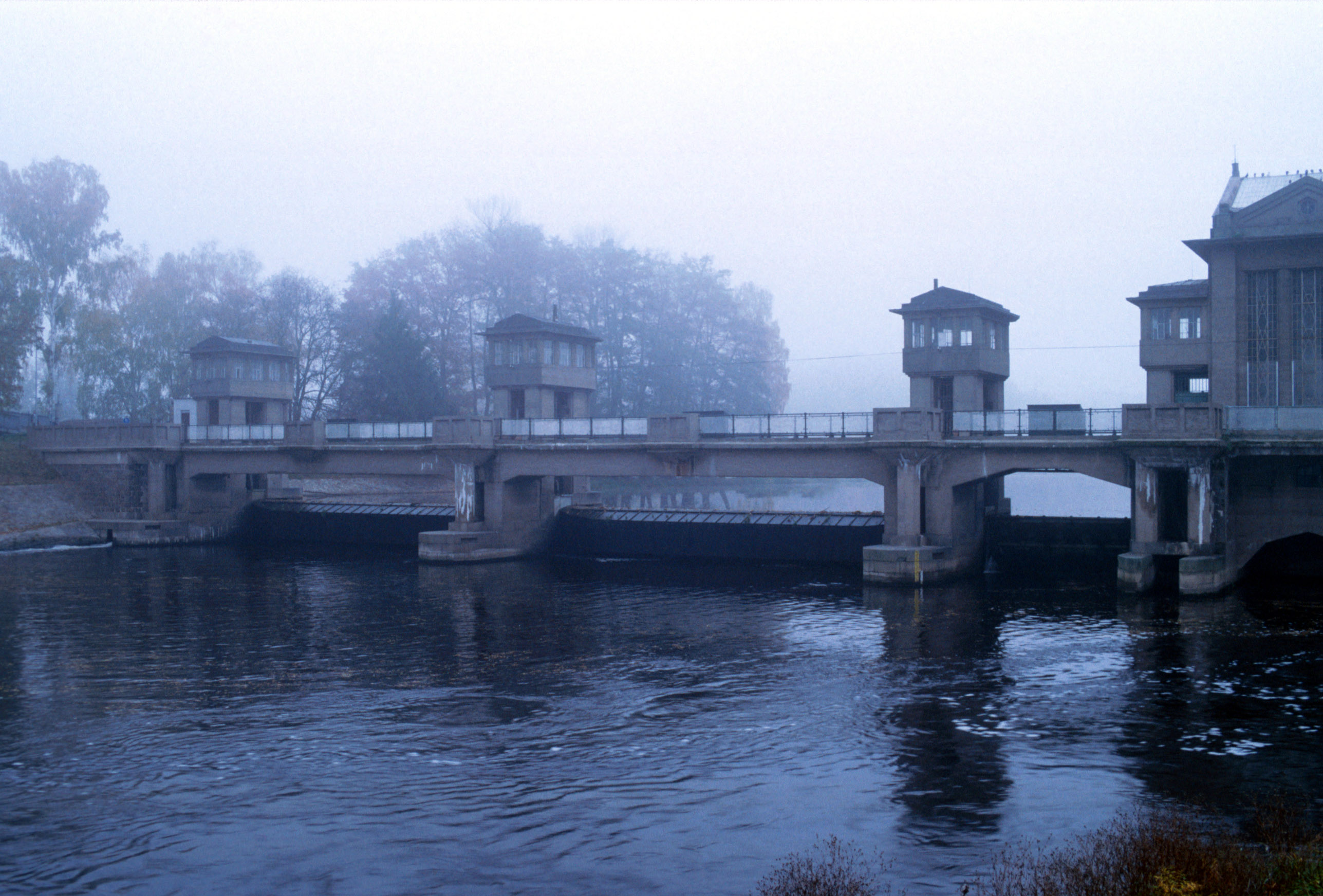 The water power station in Poděbrady by Antonín Engel.